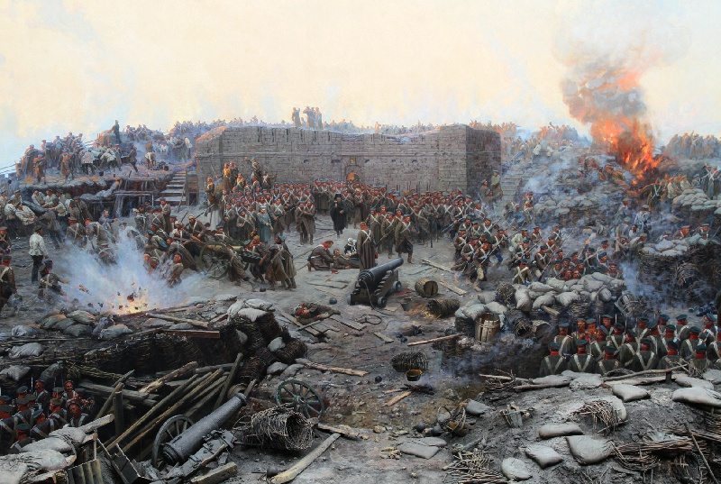 Franz Roubaud (died 1928). Detail of his panoramic painting The Siege of Sevastopol (1904).